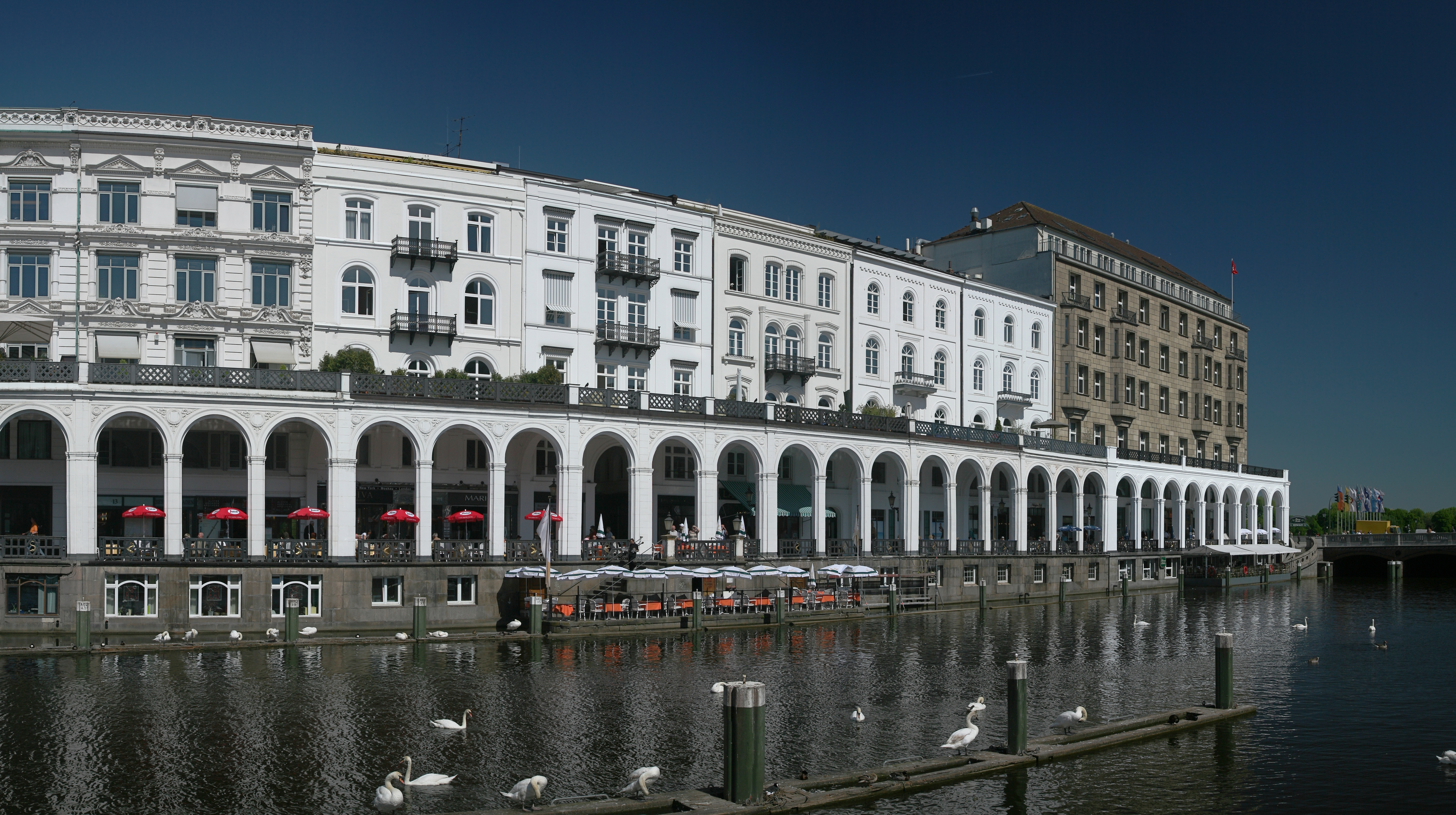 Alster Arcades (Alsterarkaden), Hamburg, Germany.